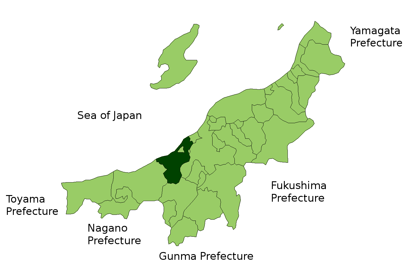 Location Map of Kashiwazaki in Niigata Prefecture, Japan